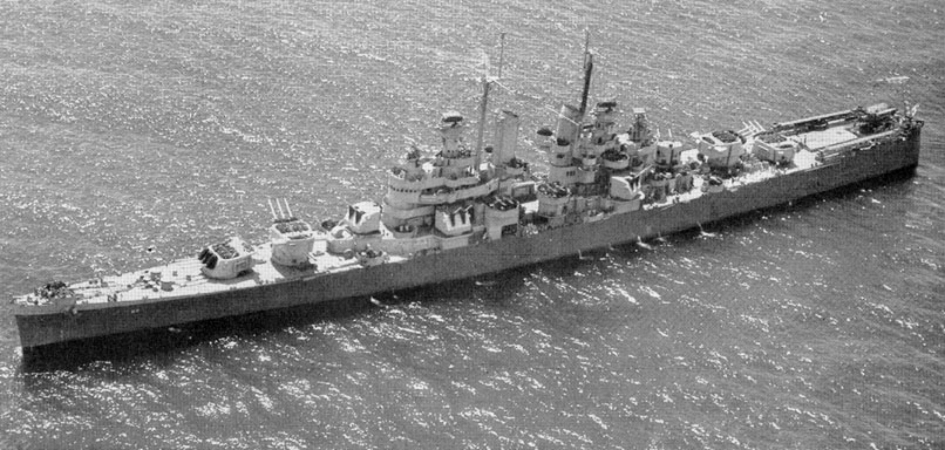 The U.S. Navy light cruiser USS Montpelier (CL-57) in 1945 after she had been repainted in Camouflage Measure 22.